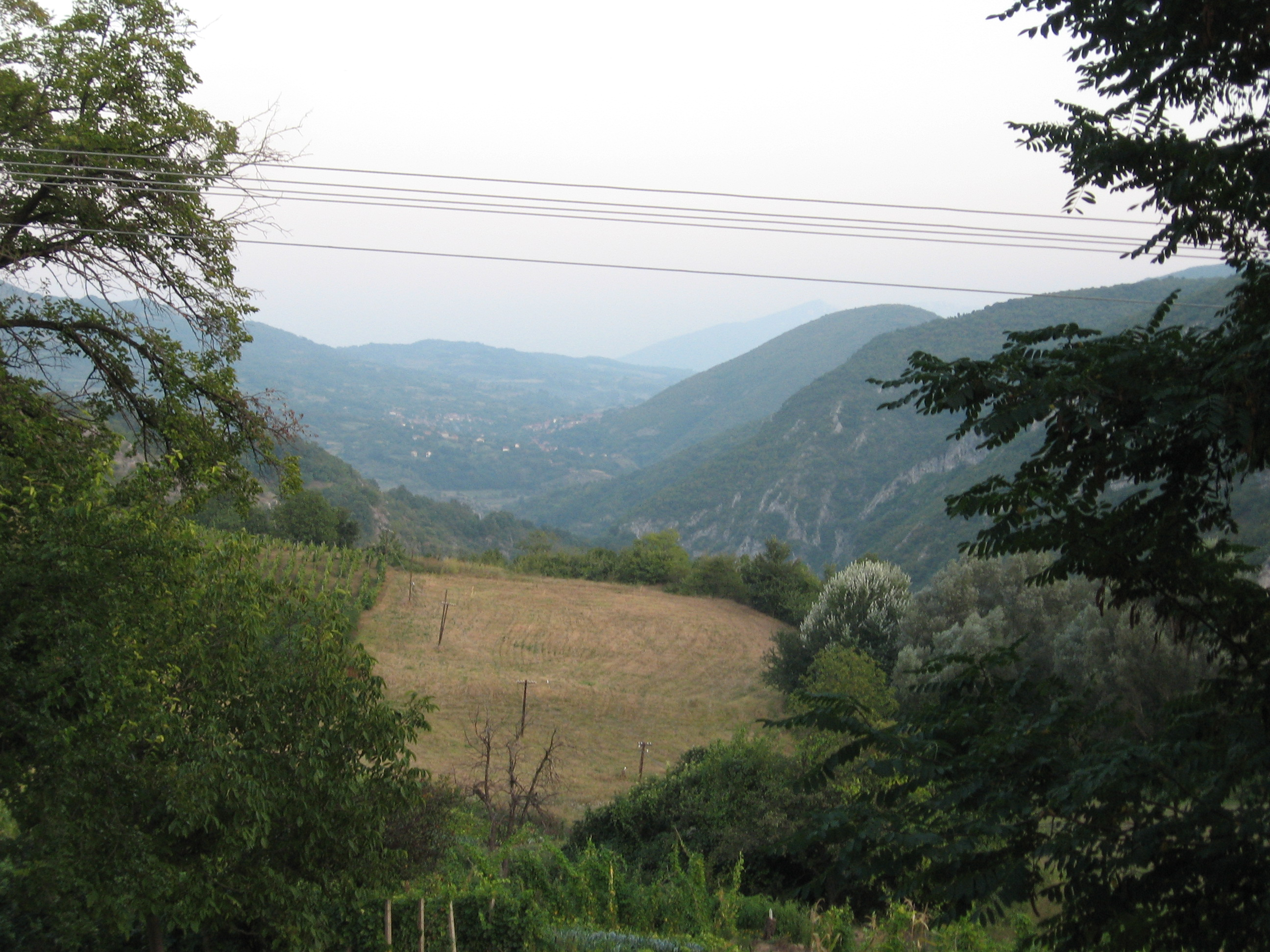 View to the East from Sićevo. Picture made before the opening evening of the International Art Colony „Sićevo“.